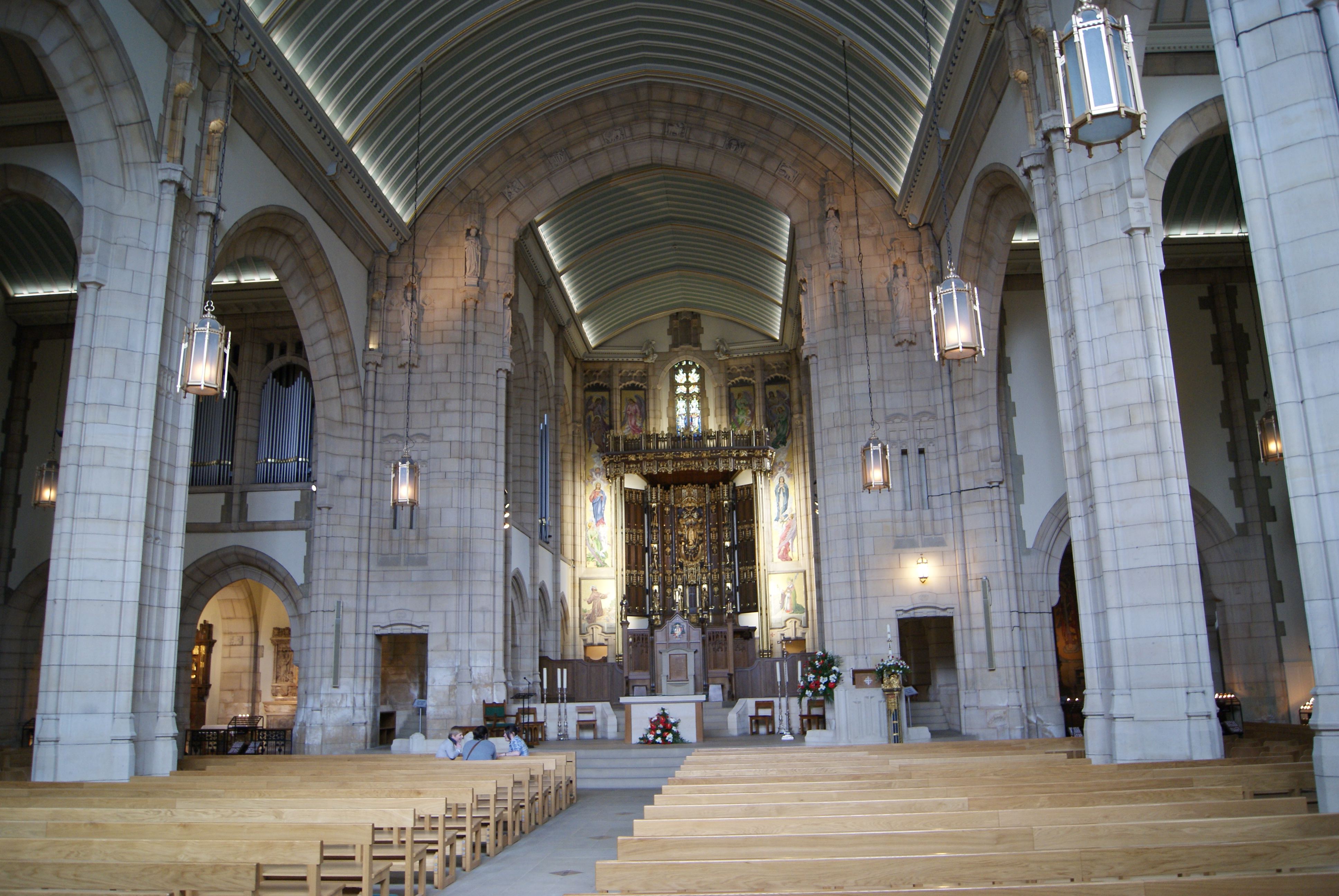 The interior of St Anne's Cathedral, Leeds, looking from the back to the front. Despite its small size it seems quite spacious inside, which surprised me, having never been inside before. Taken on the afternoon of Tuesday the 4th of May 2010.